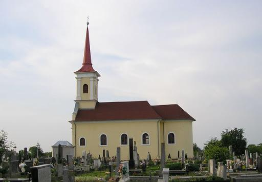 Church in Croatia